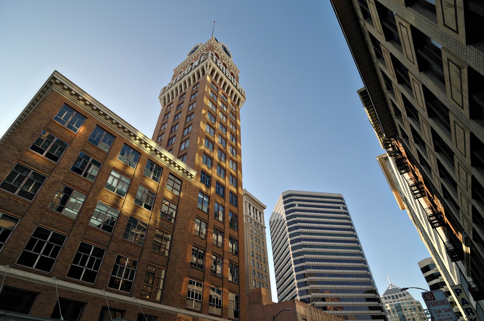 Tribune Tower, from 13th and Franklin St. in Downtown Oakland, Jan 2009, by Hitchster